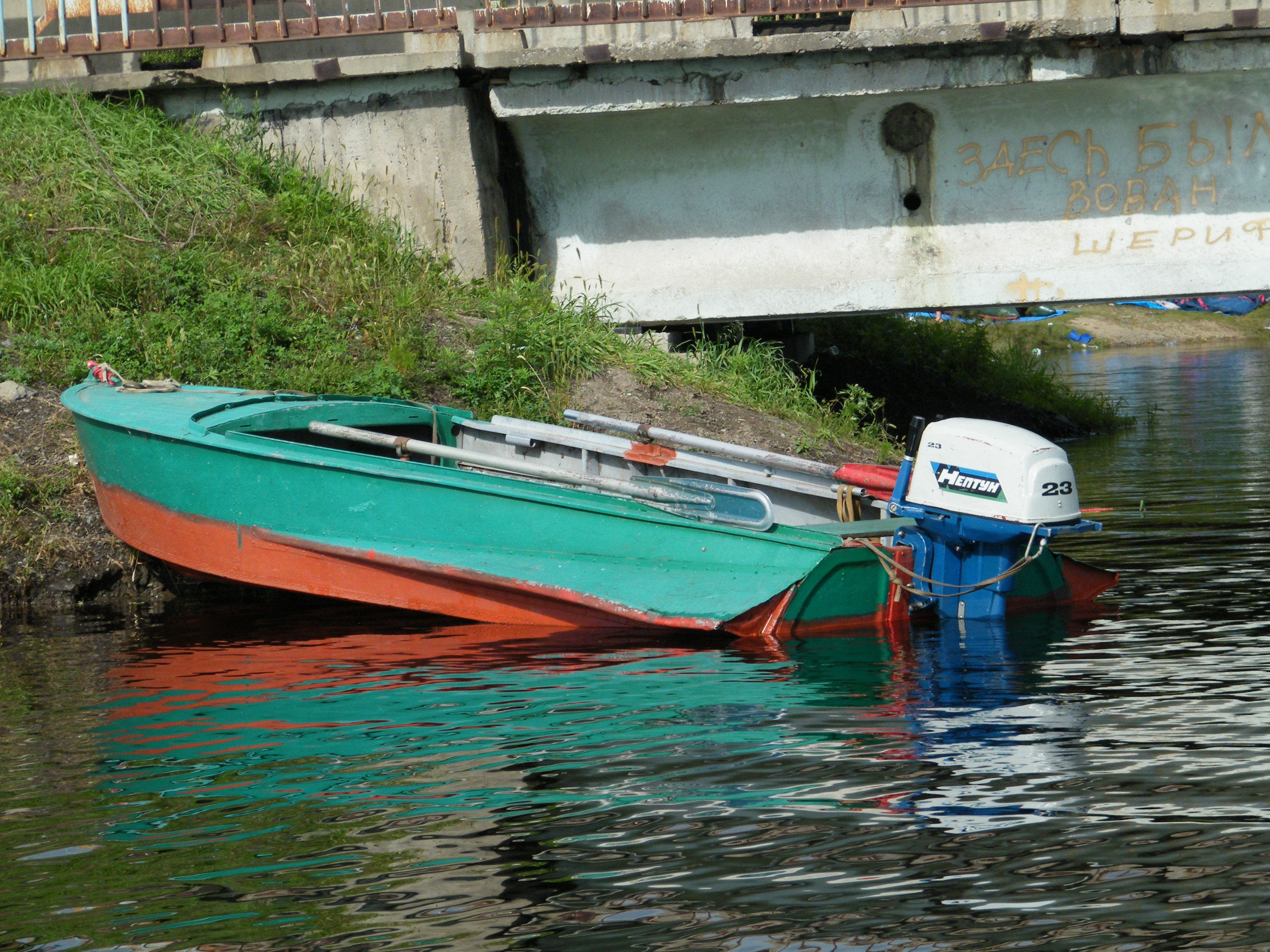 Казанка с булями и Нептун-23